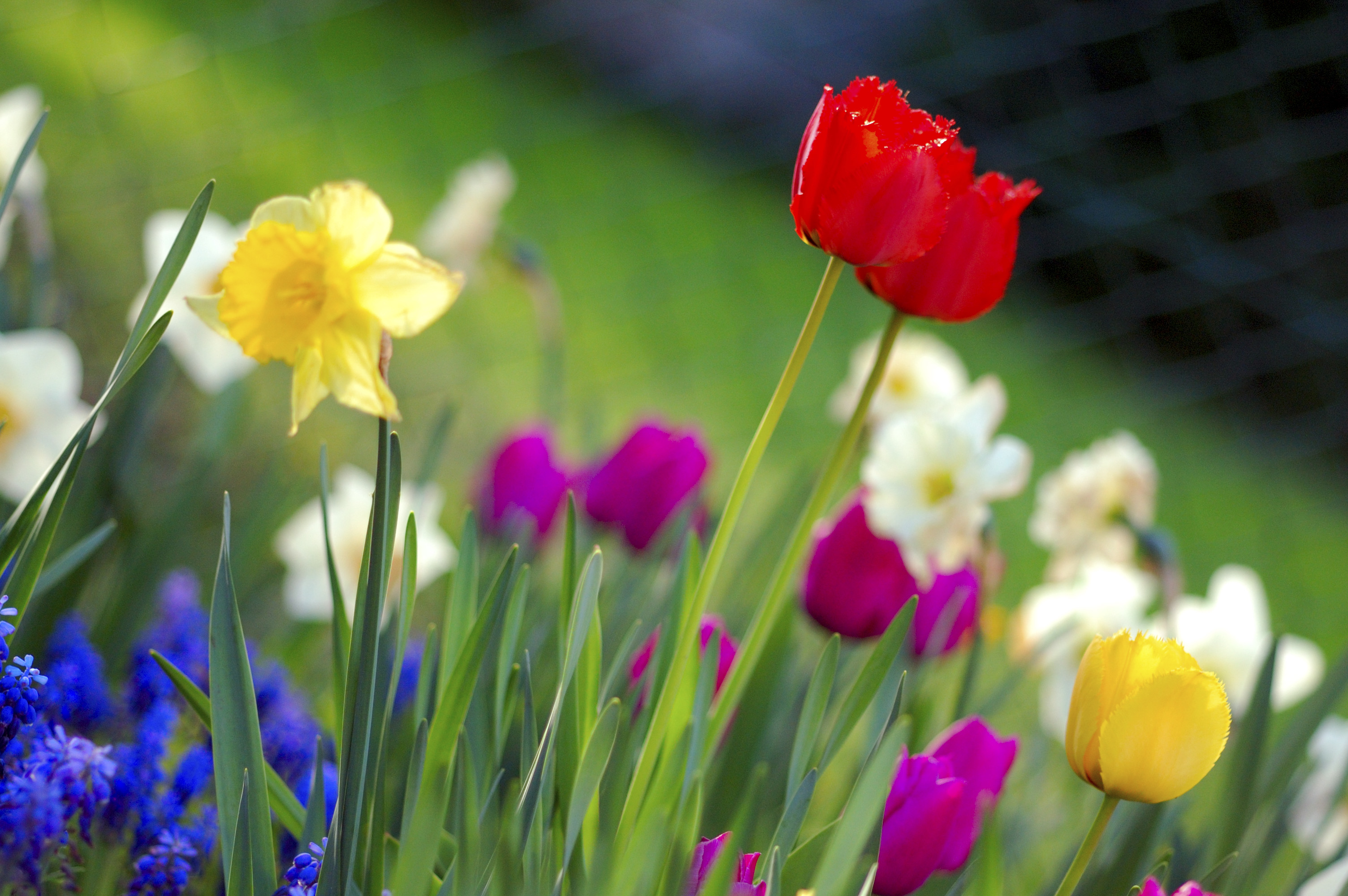 Garden with some tulips and narcissus